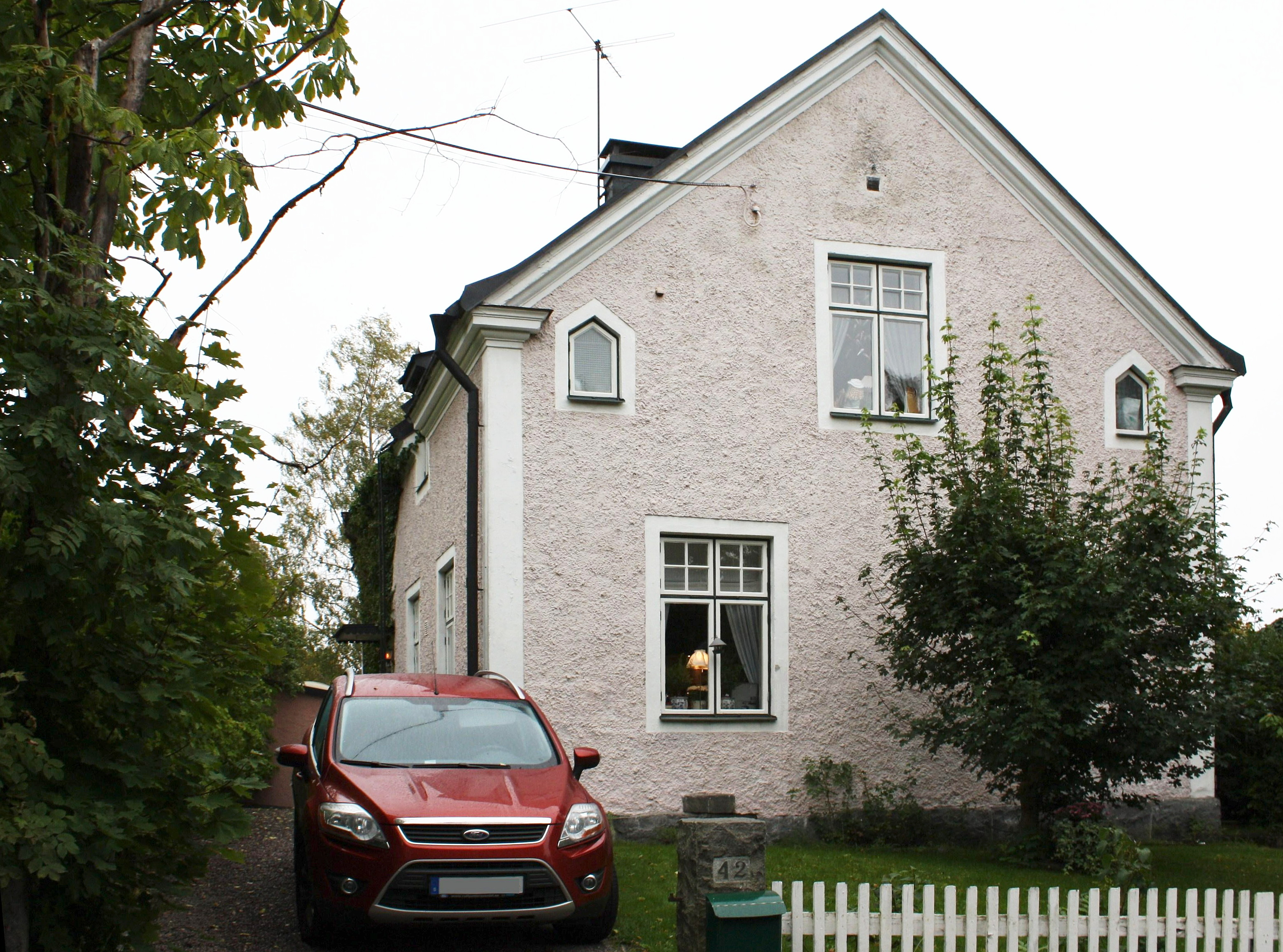 Home and workshop of artist Helga Henschen, Duvbo, Sundbyberg. License plate on car covered.